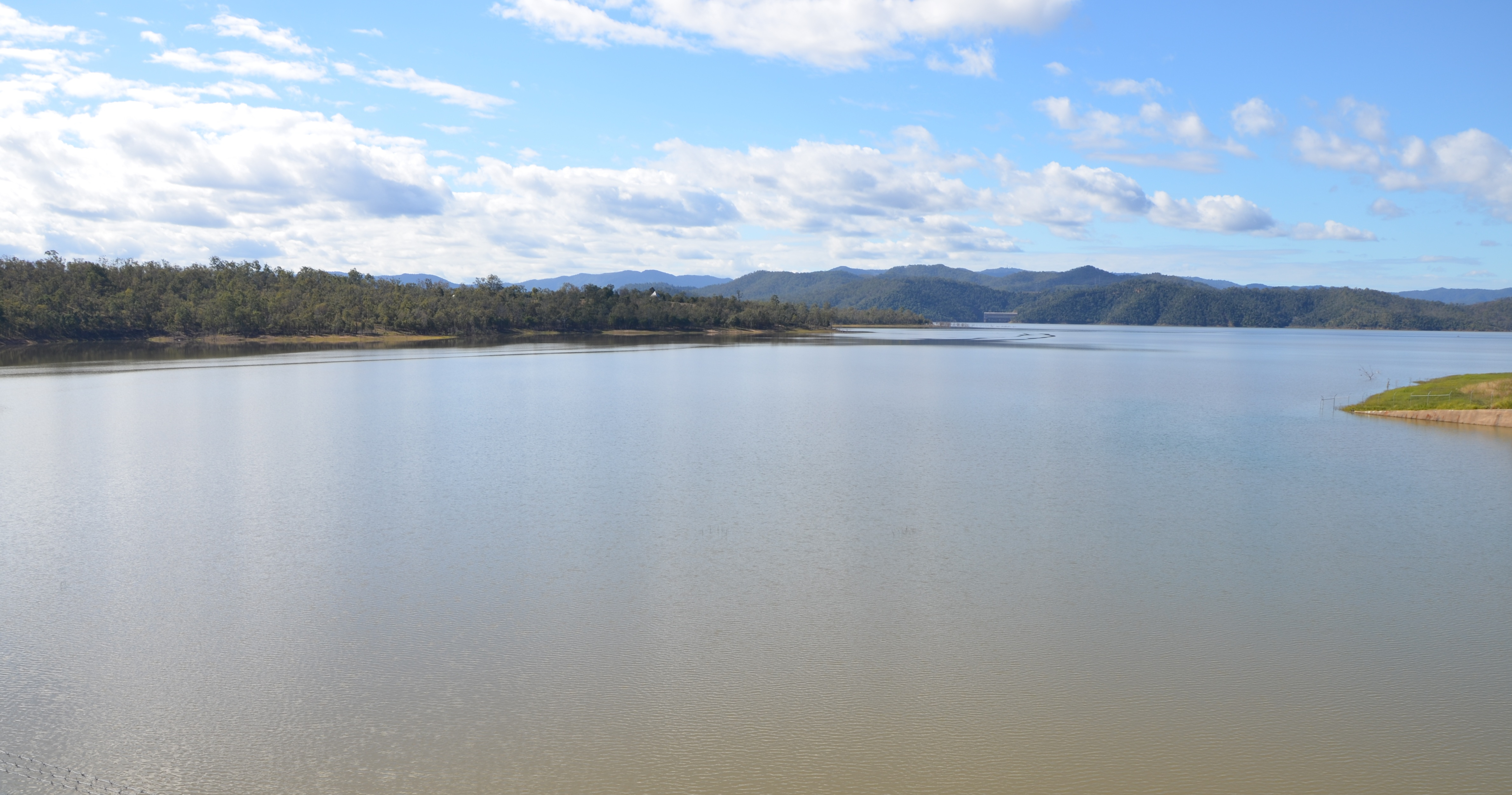 View of Wivenhoe Dam from the western side lookout, just near the dam wall.